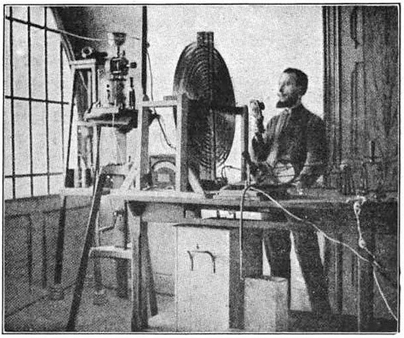 Photograph of a radiotelephone transmitter in use at the Laeken, Belgium radio station circa 1914. The device used a high-frequency spark transmitter developed by Riccardo Moretti of Rome and a microphone invented by Giovan Battista Marzi of Cornigliano Liguria, Italy. The station was under the oversight of Robert Goldschmidt.